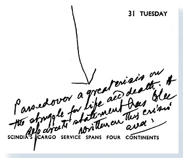 Diary released from safekeeping. Page of the journal kept by Prabhupada. Between August 25 1965 and August 30 1965, the Jaladuta Journal falls silent for six days. On the seventh day, August 31, the silence is broken with these simple words, “Passed over a great crisis on the struggle for life and death.”